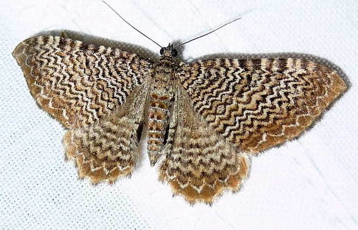 Hydria undulata. Location: Bargerveen - Meerstalblok (The Netherlands)